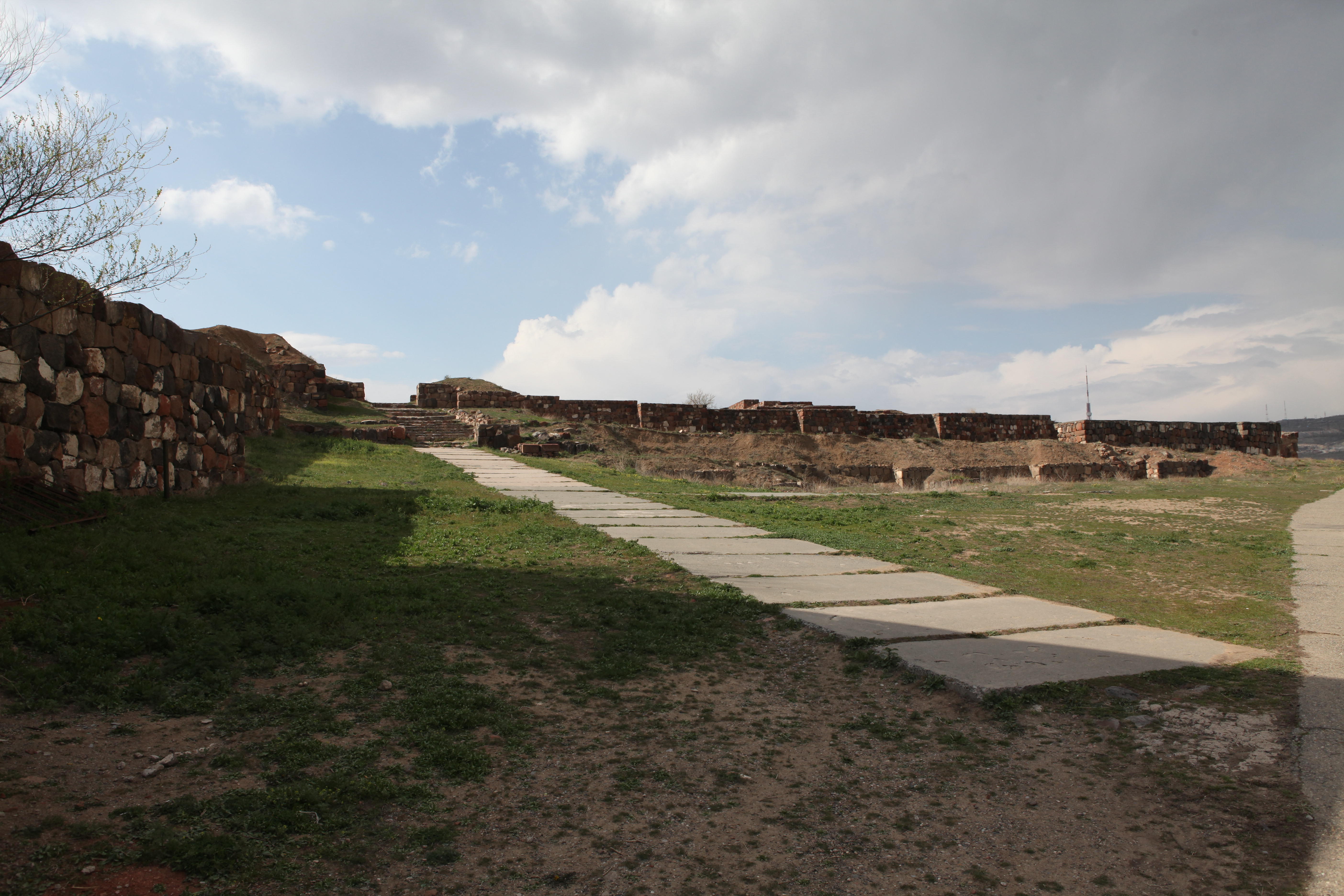 Erebuni Fortress